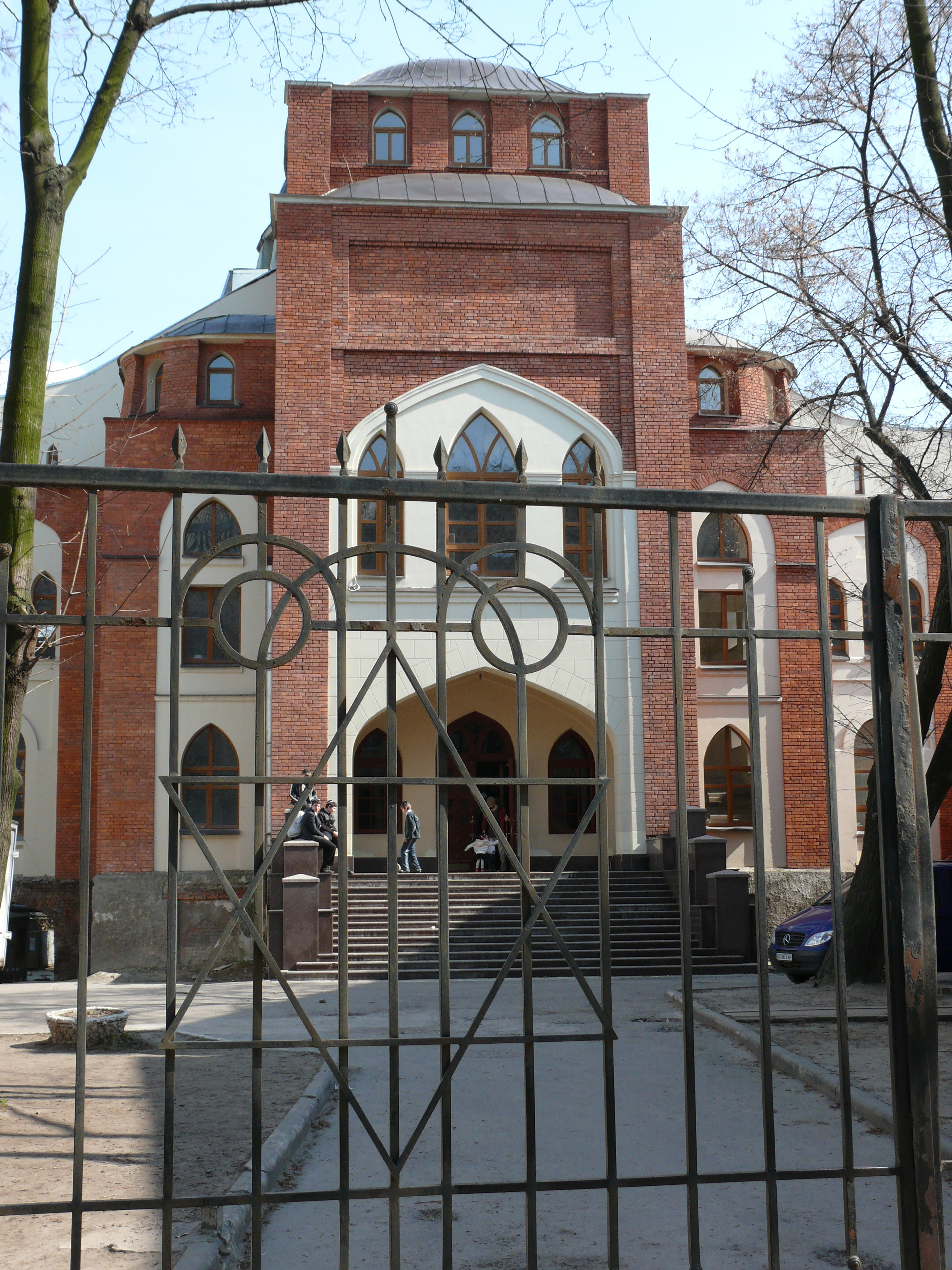 Kharkov Synagogue. Face. 1914